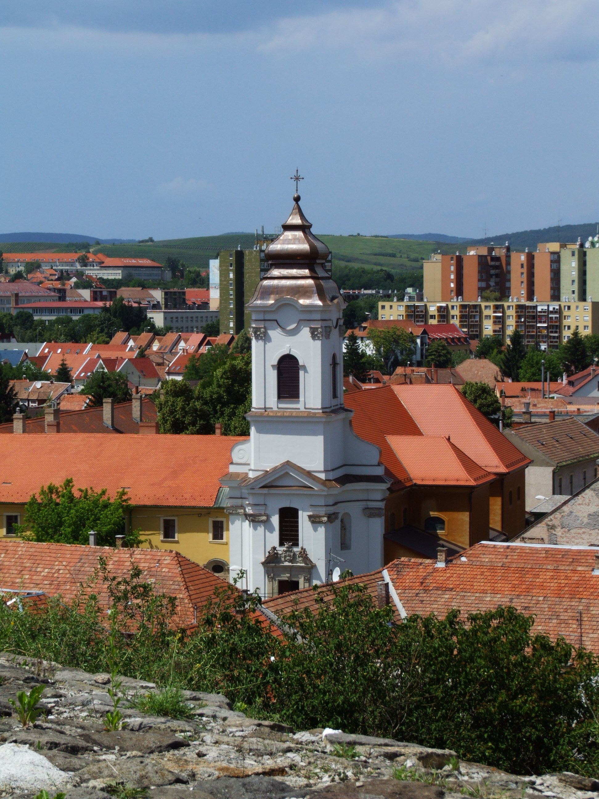 Church of Servite order in Eger